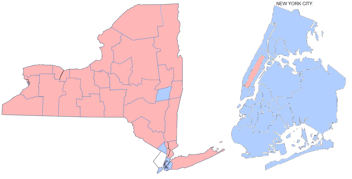 Partisan composition of the Senate of the 152nd New York State Legislature, in office from January 1 to December 31, 1929. Red represents Republican senators and Blue represents Democratic senators. Boundaries are courtesy of the 1918 The World almanac pp. 831- 834, and parties are courtesy of the English Wikipedia page of the 152nd New York State Legislature. Adapted from File:New_York_Counties.svg.